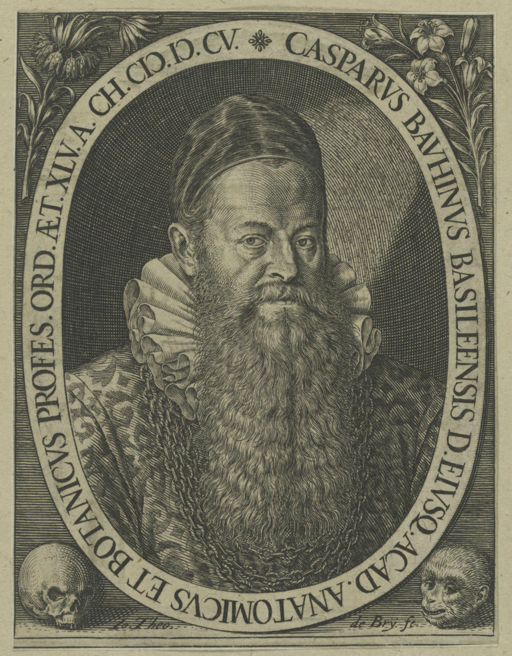 CASPARVS BAVHINVS BASILEENSIS D. EIVSQ. ACAD. ANATOMICVS ET BOTANICVS PROFES. ORD. AET. XLV. A. CH. CIↃ. IↃ. CV. Io. Theo. de Bry. fe.